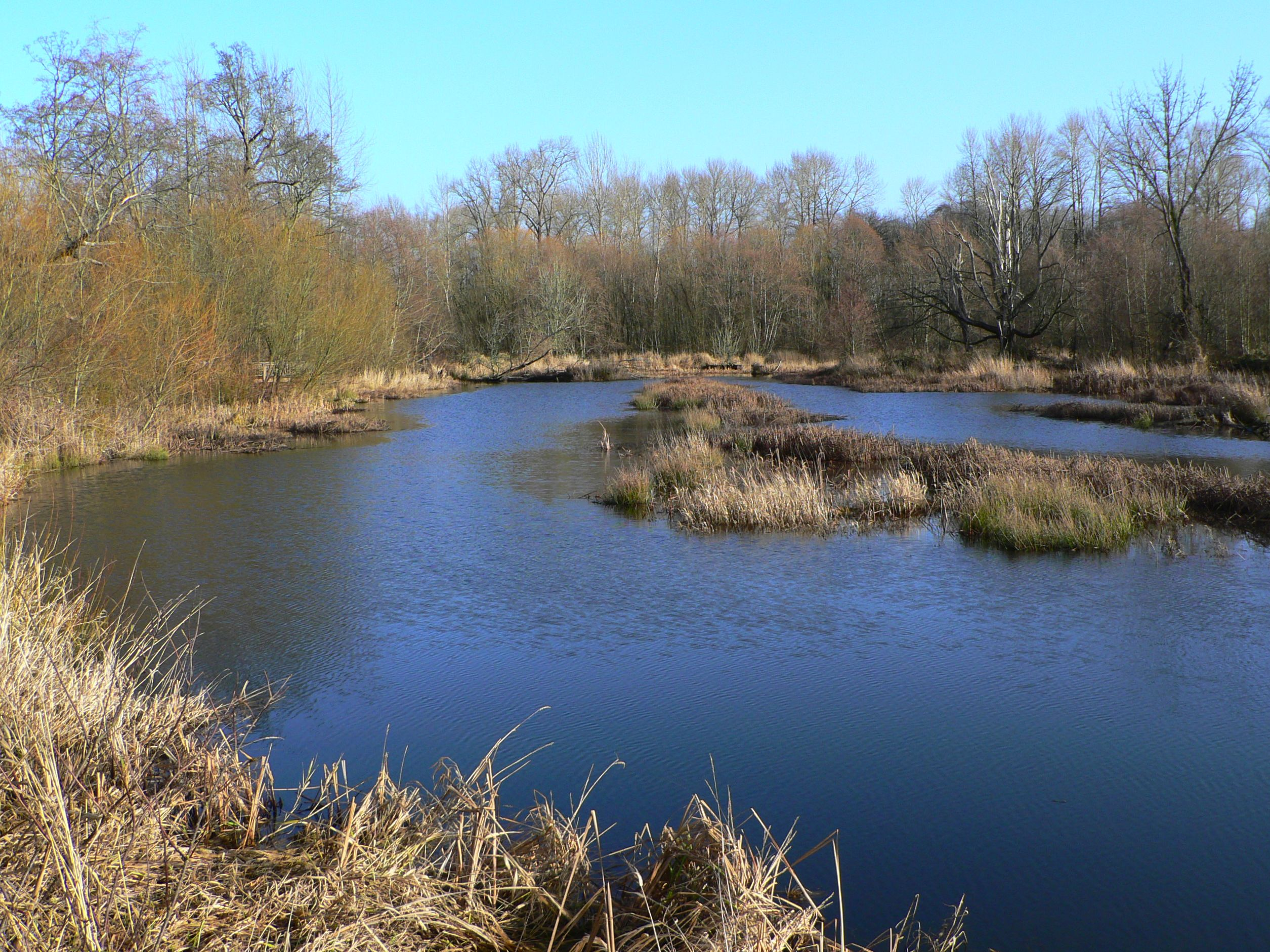 Marsh